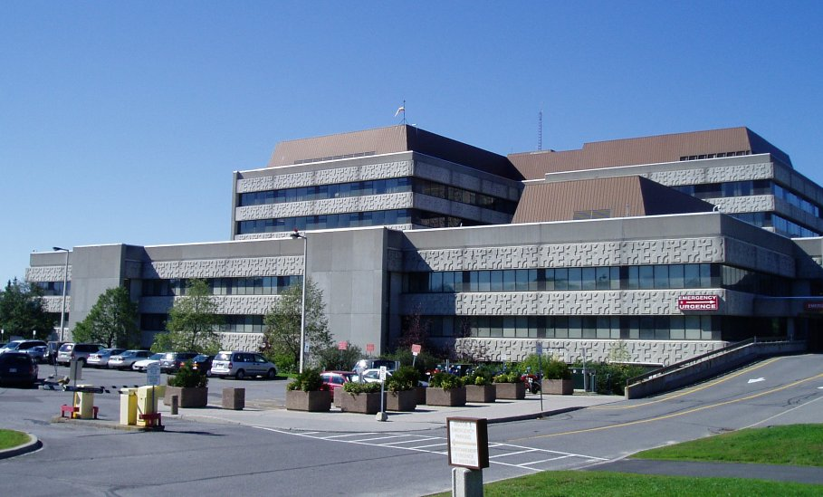 Taken by craig allsop